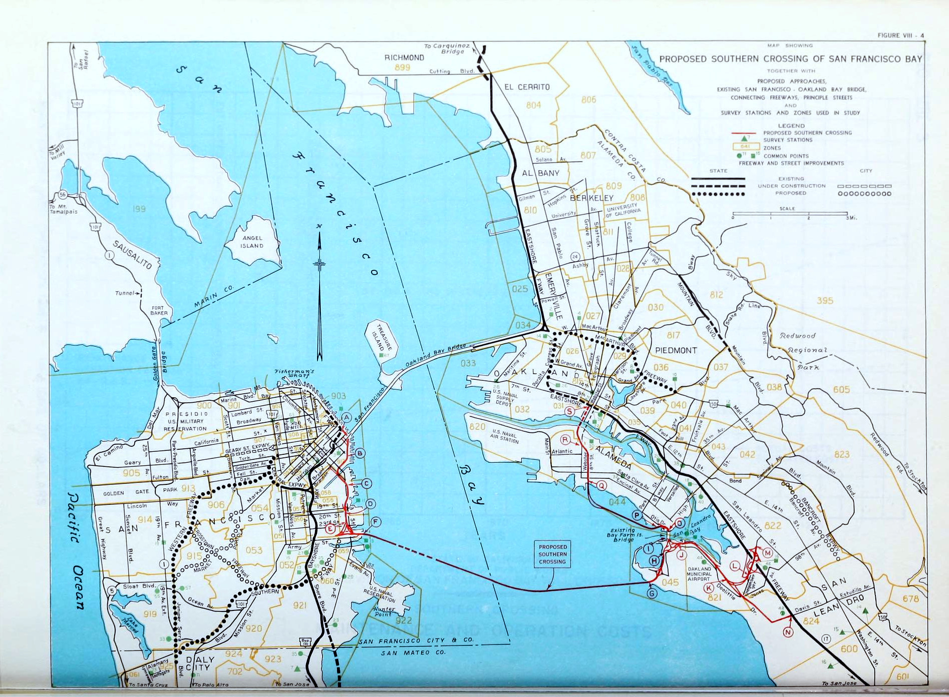 Map showing Proposed Southern Crossing of San Francisco Bay together with proposed approaches, existing San Francisco - Oakland Bay Bridge, connecting freeways, principle [sic] streets and survey stations and zones used in study.